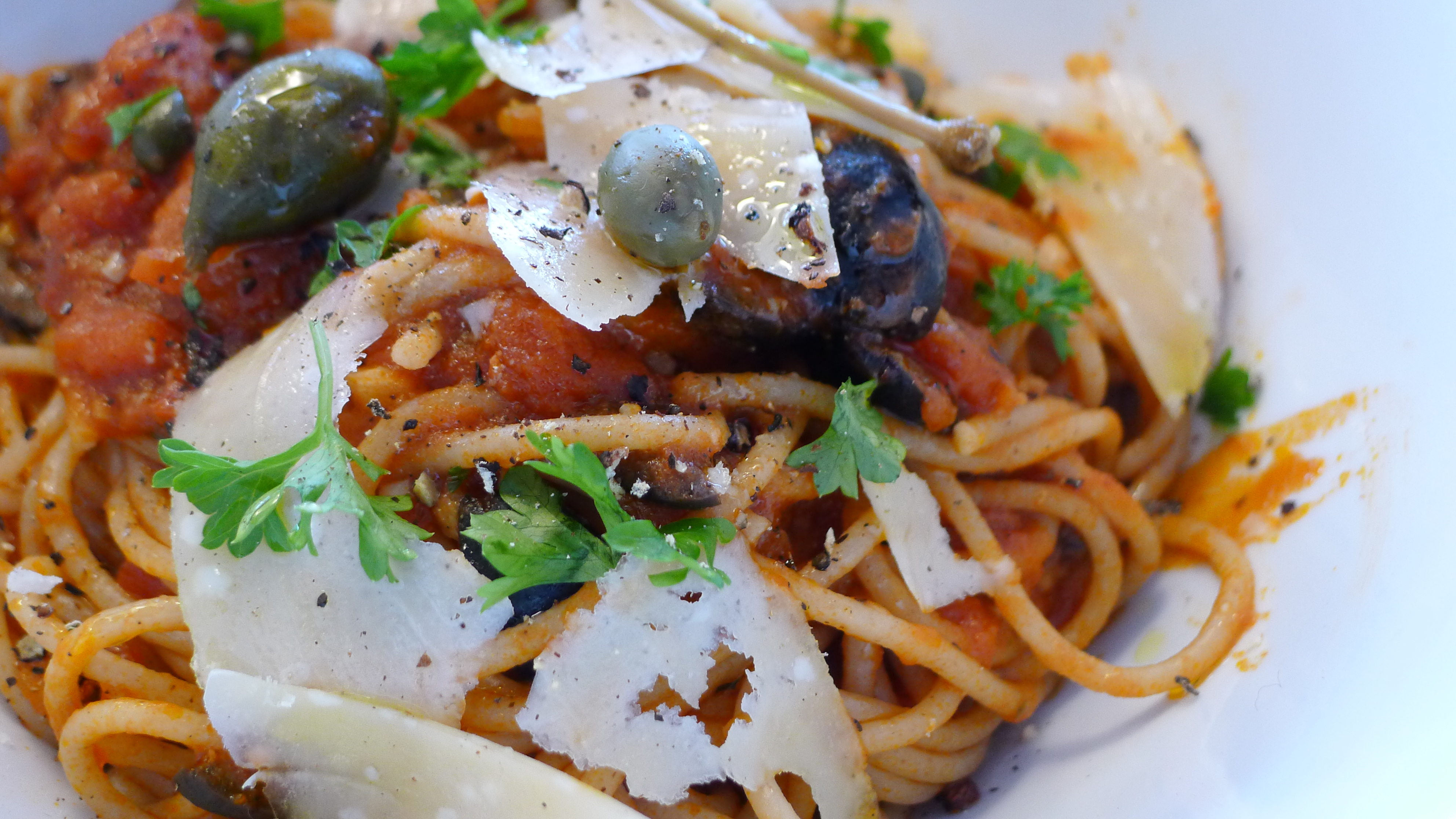 Detail of homemade Spaghetti alla Puttanesca